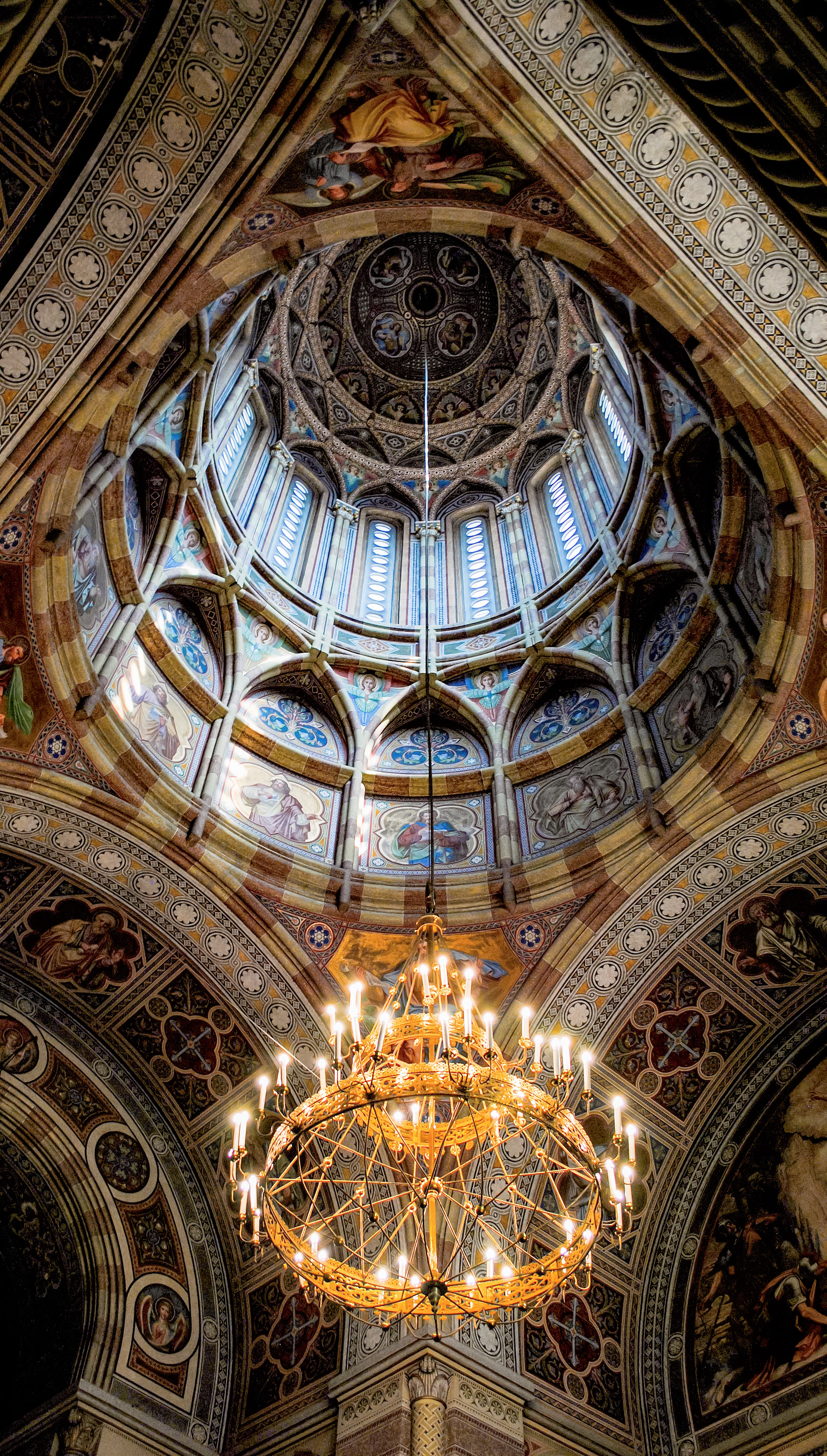 Three Holy Hierarchs Church (Chernivtsi). Ceiling paintings of the Seminar church (1870, painters: K.Jobst, E.Bucevschi, the monument of architecture of national significance №778/3). This is a part of the complex metropolitan residence of Bukovina and Dalmatia, which is listed in the UNESCO World Heritage List